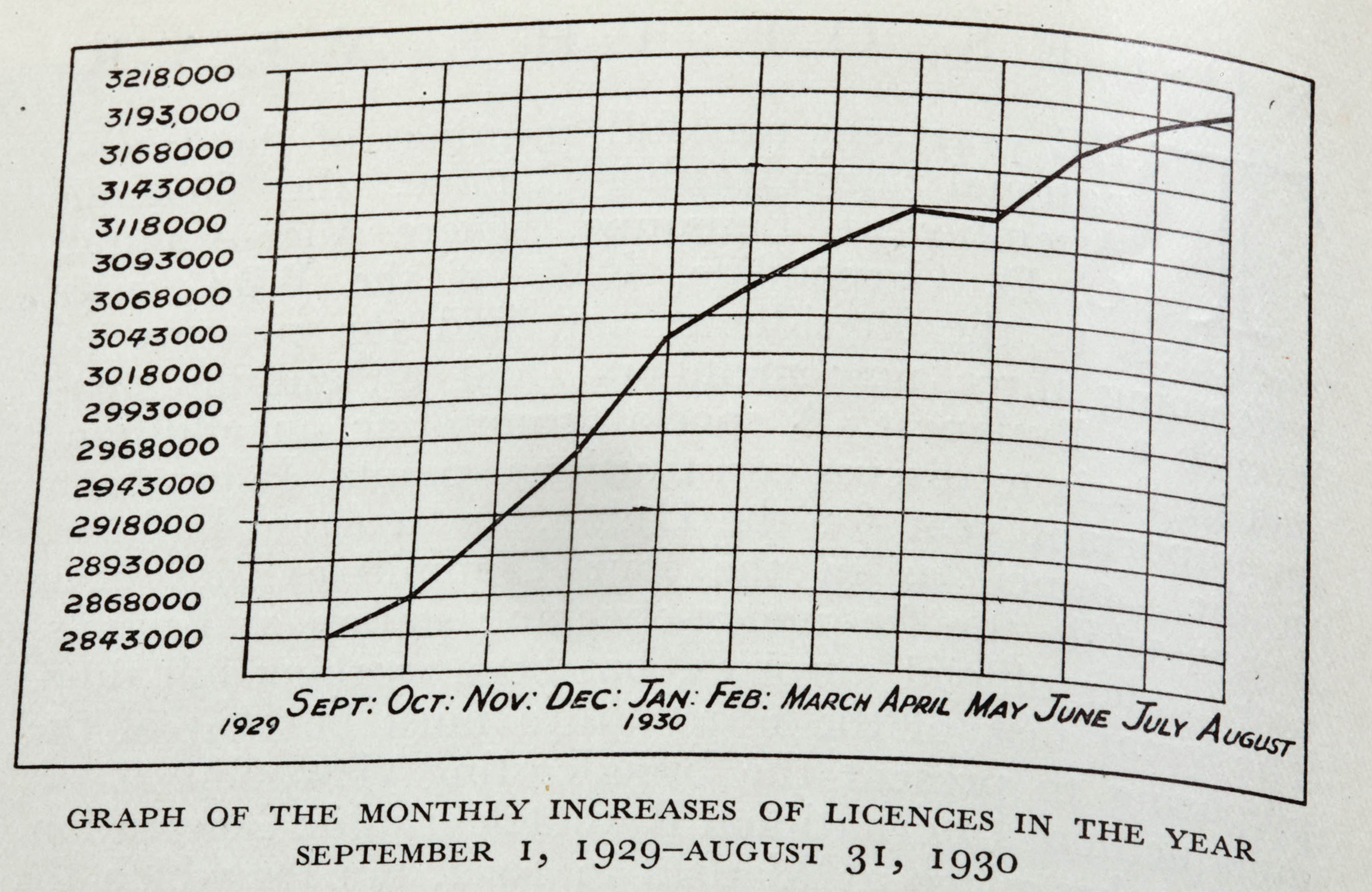 Graph of the monthly increases of licences issued by the BBC in the year from Sept 1, 1929 - August 31, 1930